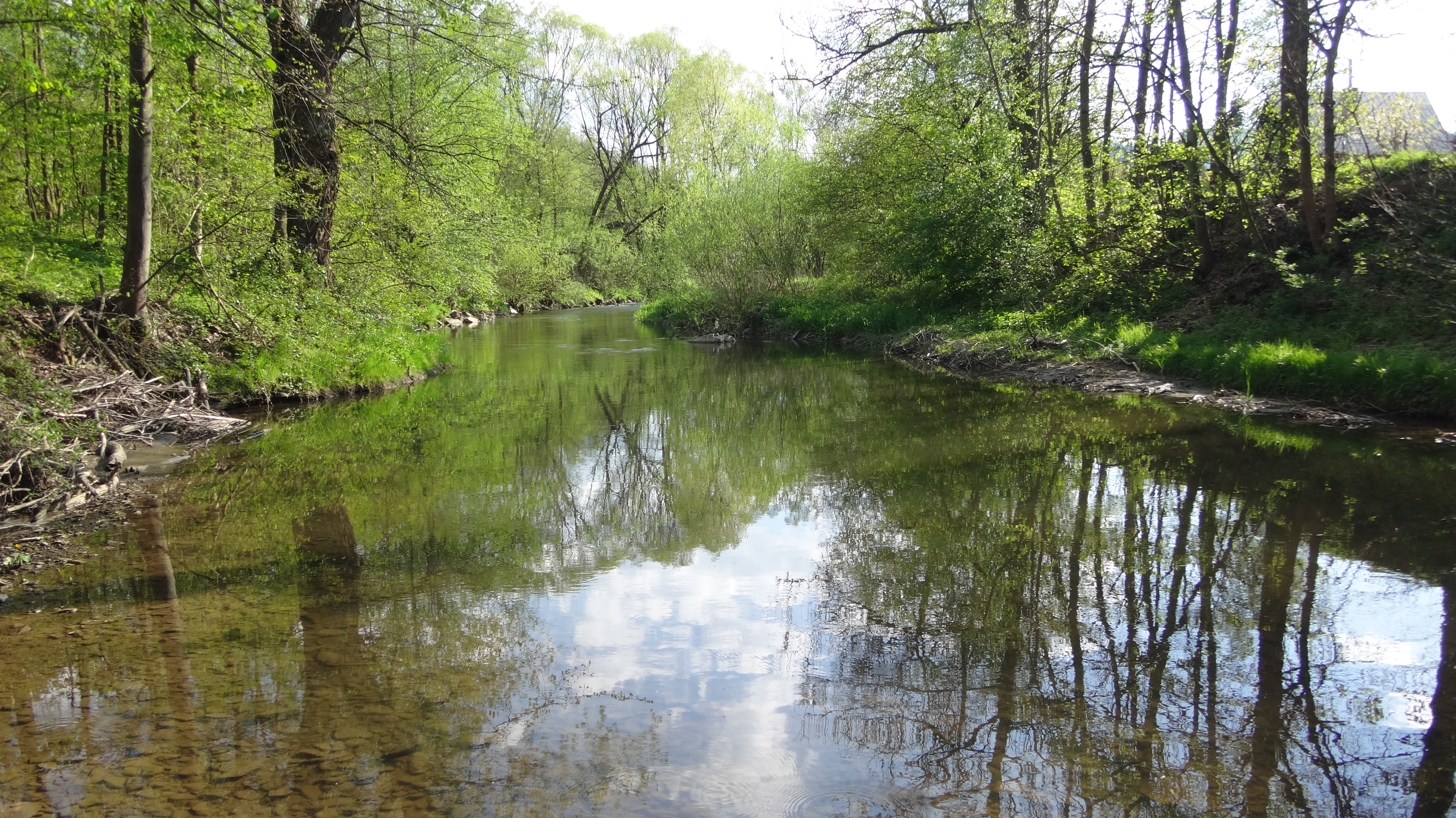 Senice v Leskovci